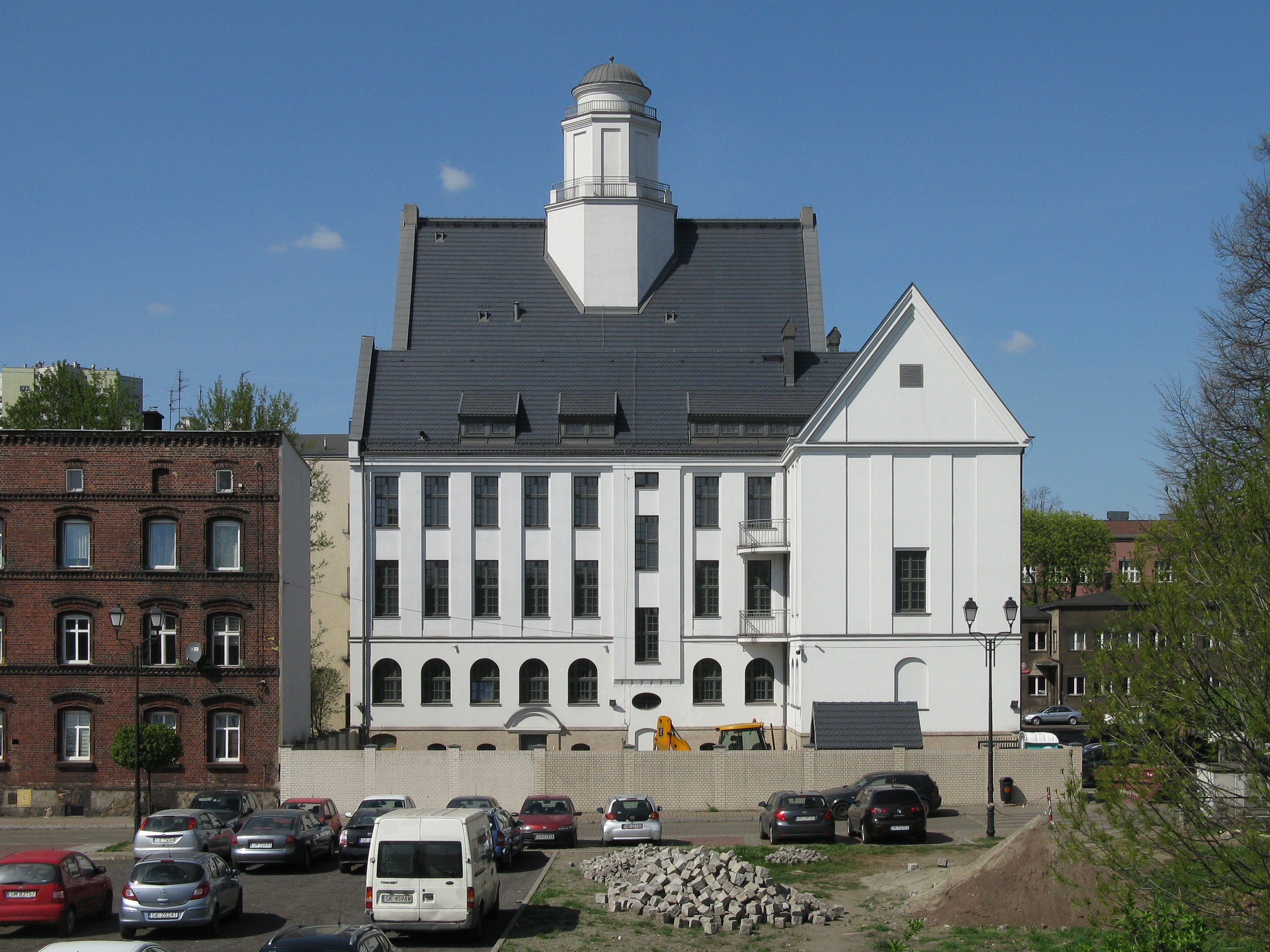 The former town hall of Bogucice-Zawodzie municipality in Katowice, 1 Maja 50 street, Poland, seen from the South.